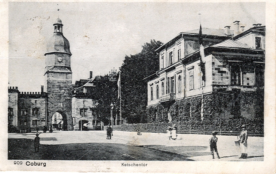 Postcard, undated ( ca.1914 ). Title: "Coburg - Ketschen gate"